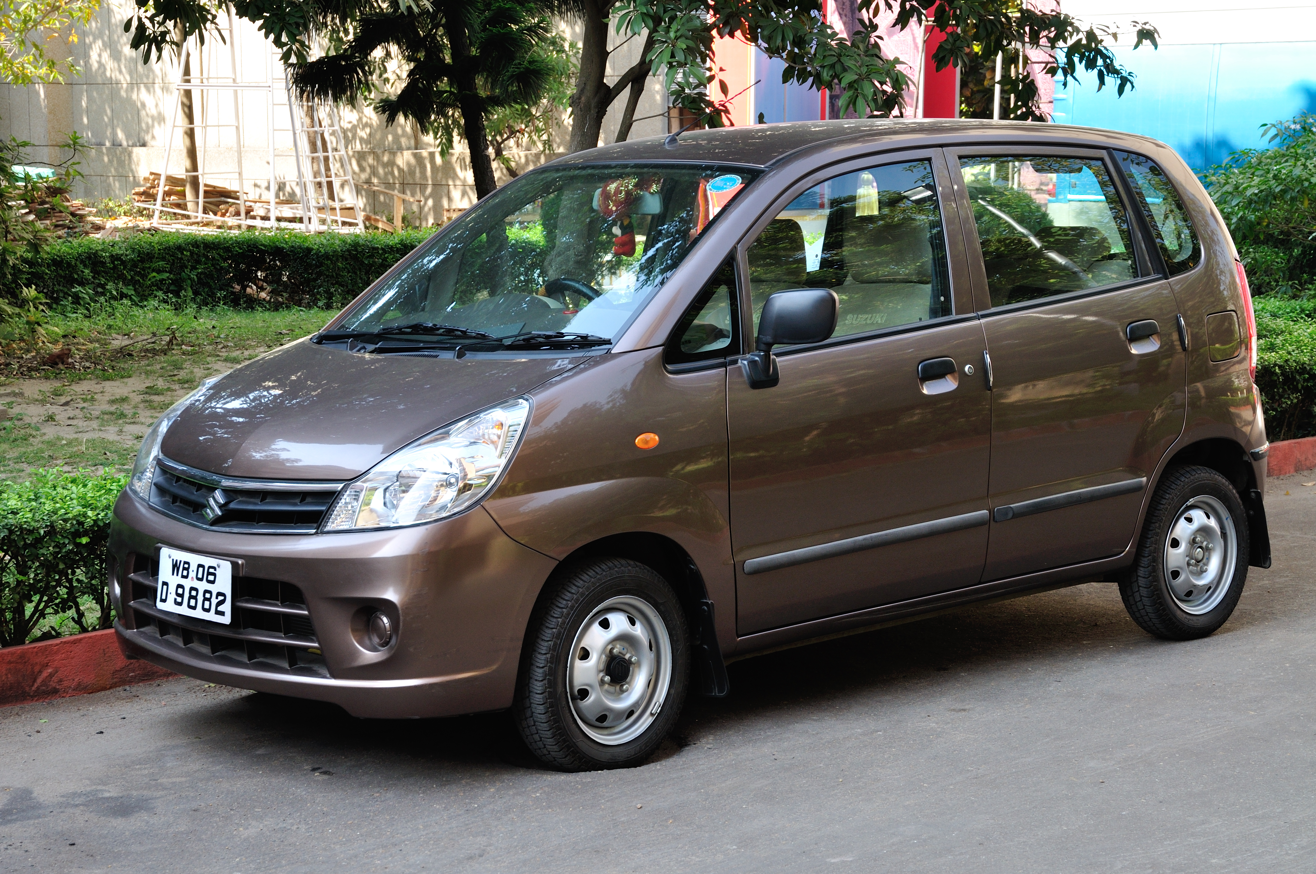 Maruti car India.